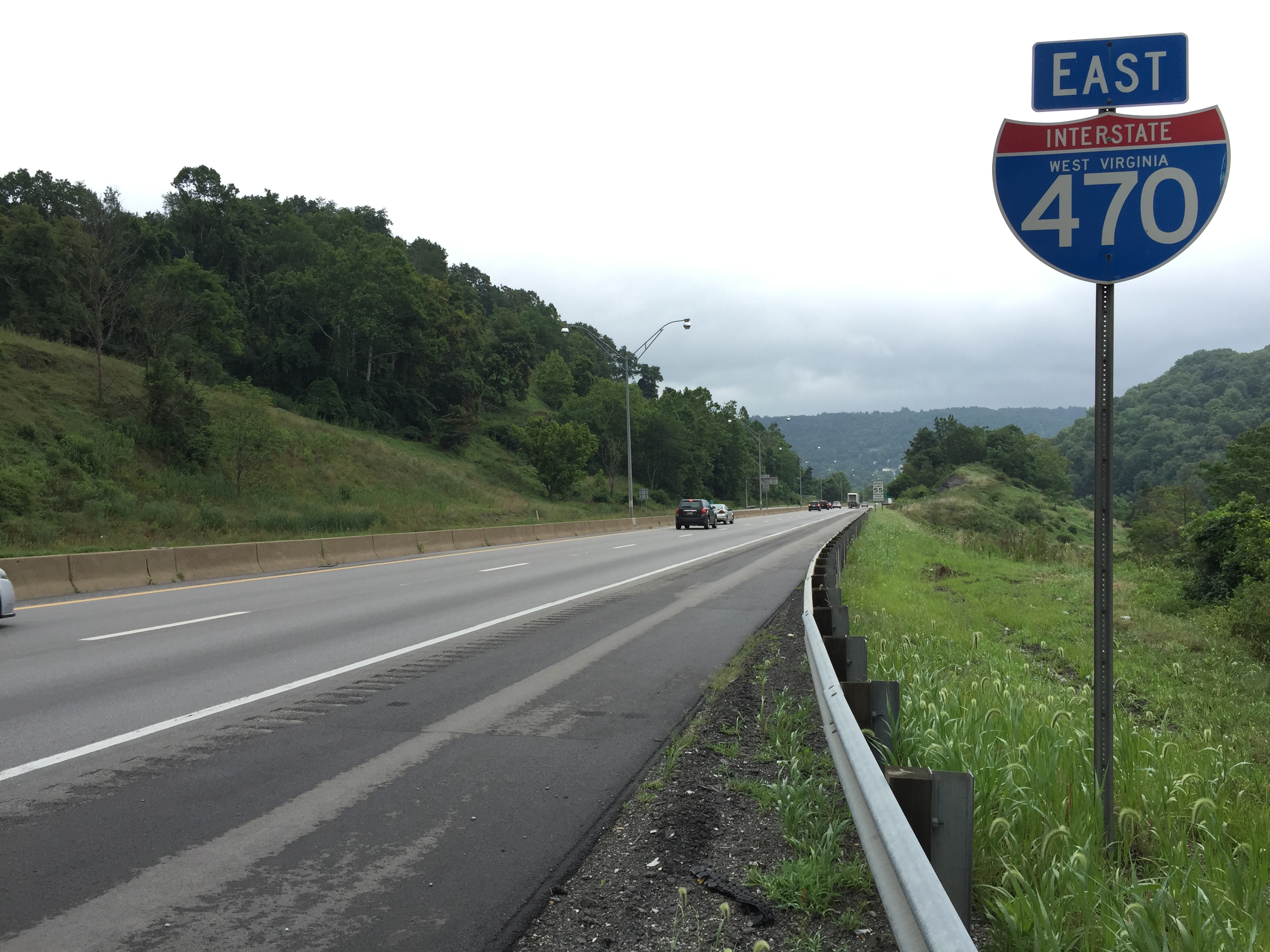 View east along Interstate 470 just east of Exit 2 (Bethlehem) in Bethlehem, Ohio County, West Virginia